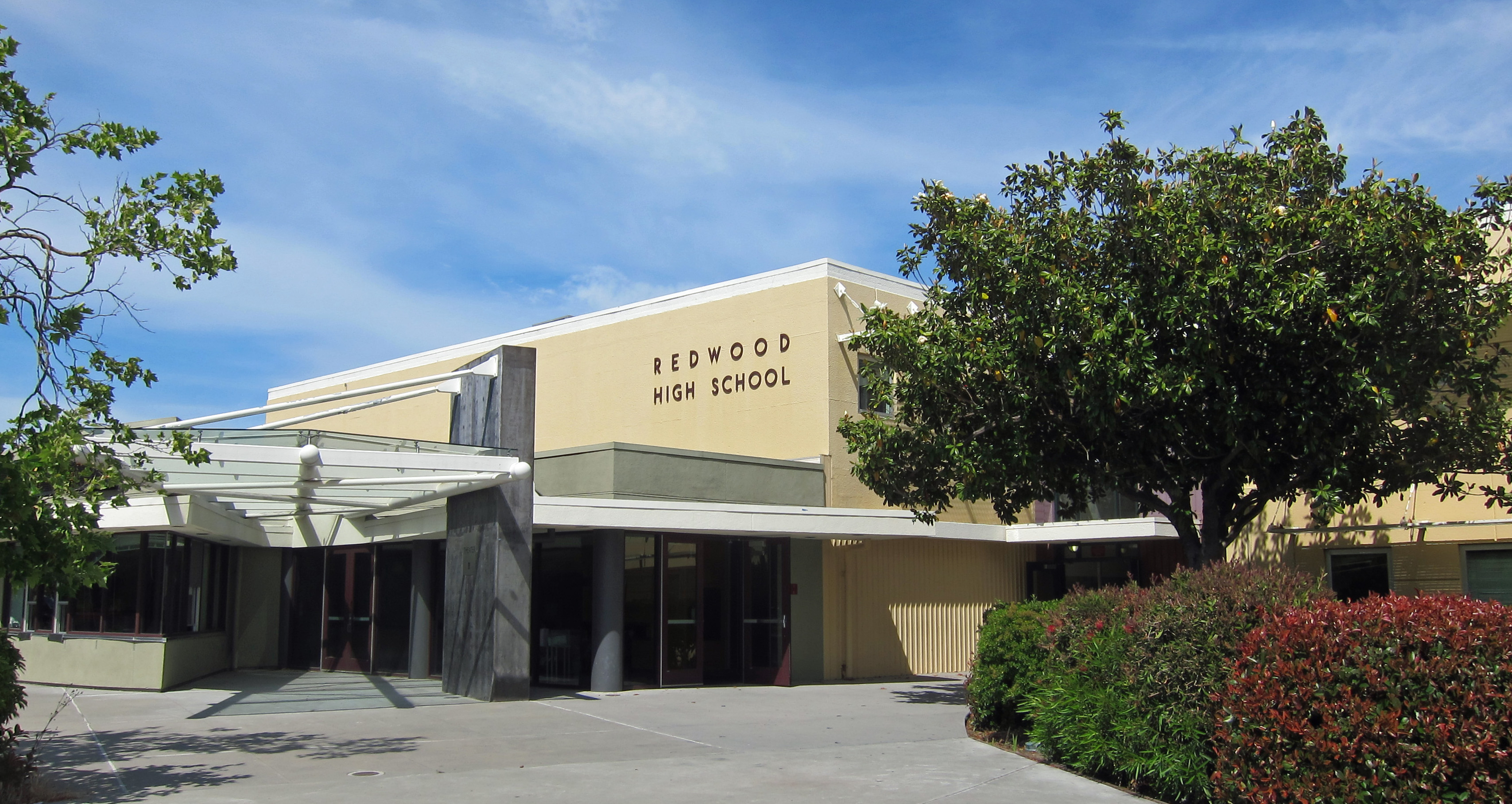 Redwood High School, Doherty Drive, Larkspur, California 94939